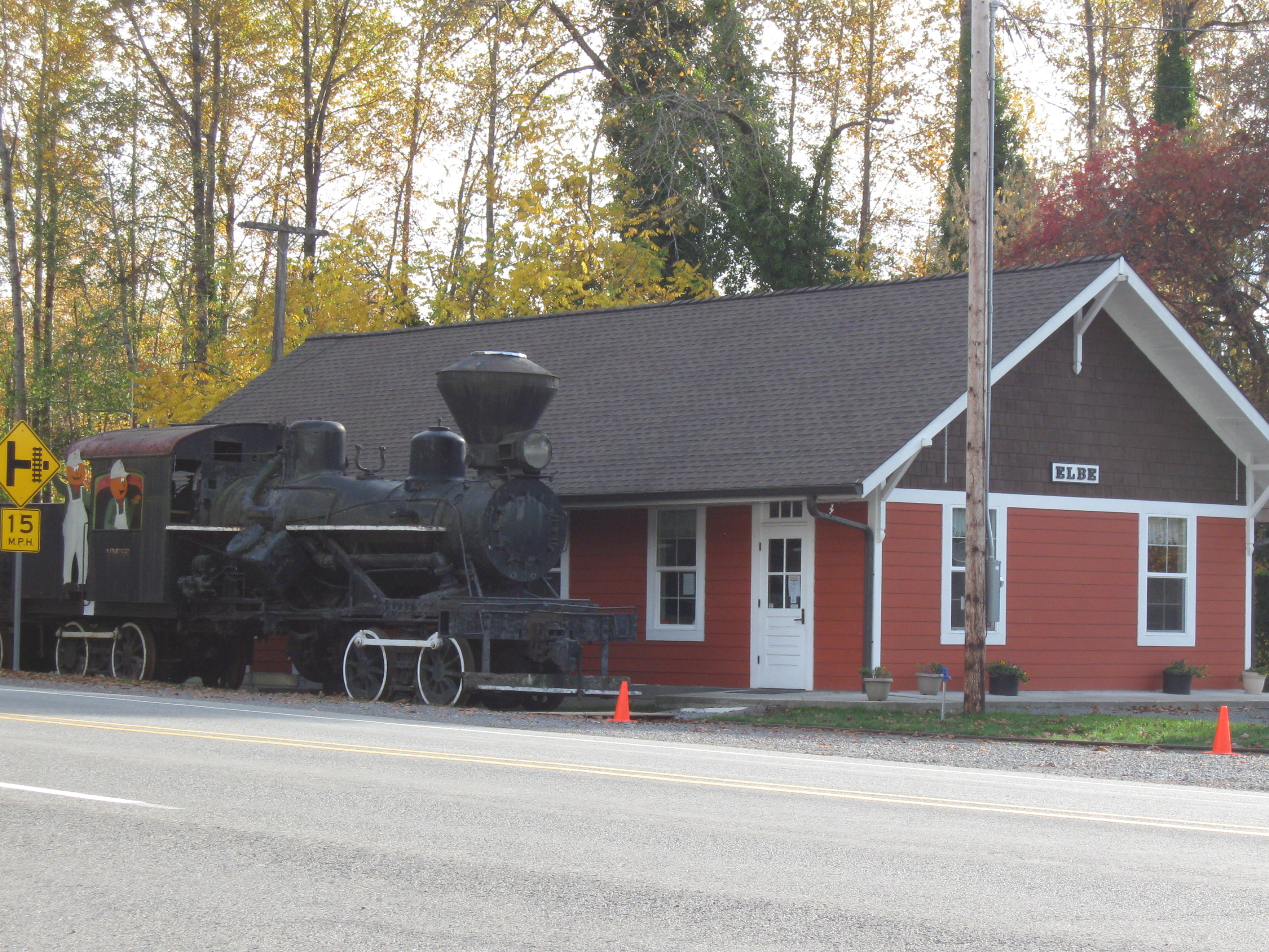 Elbe, WA train station.